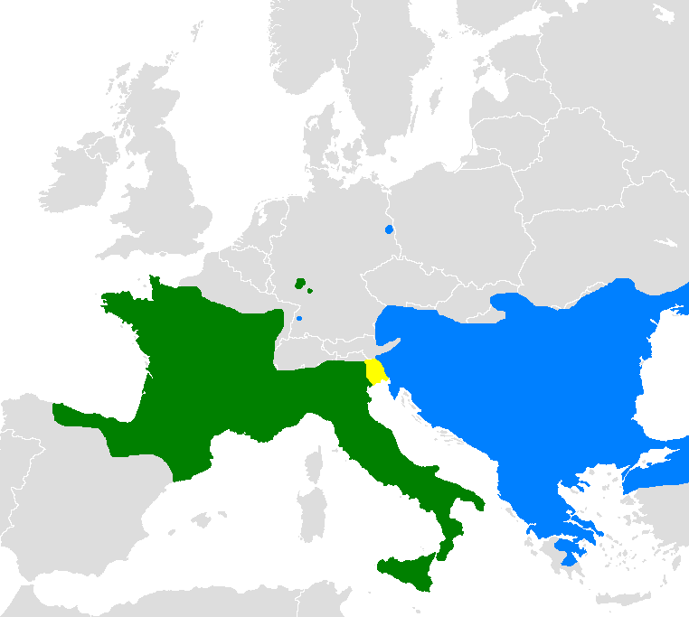 Distribution of the Western and the Eastern Green Lizard, Lacerta bilineata (green areas) and Lacerta viridis (blue areas), in Europe. The yellow area marks a zone of hybridism between both species in NE Italy. Note: The real distribution is much less continuous than the map tells! References: Arnold & Burton (1979), Günther (1996) and newer literature.